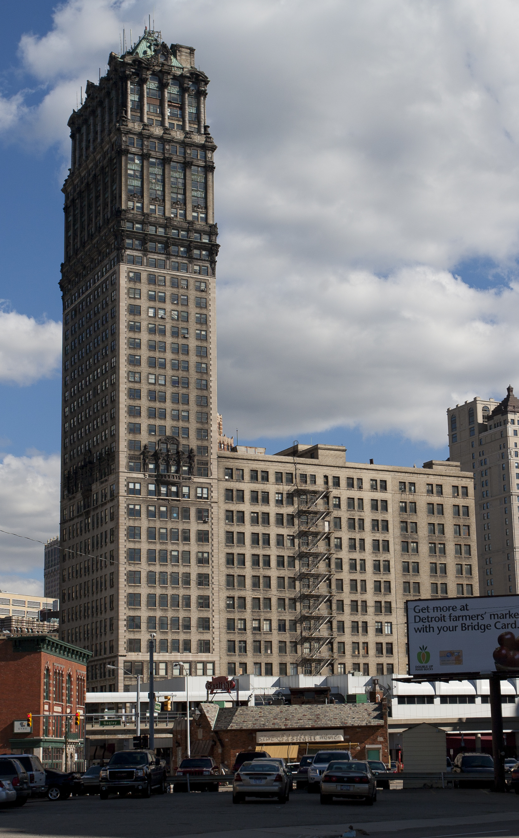 The Book Tower, Detroit in the fall of 2010.